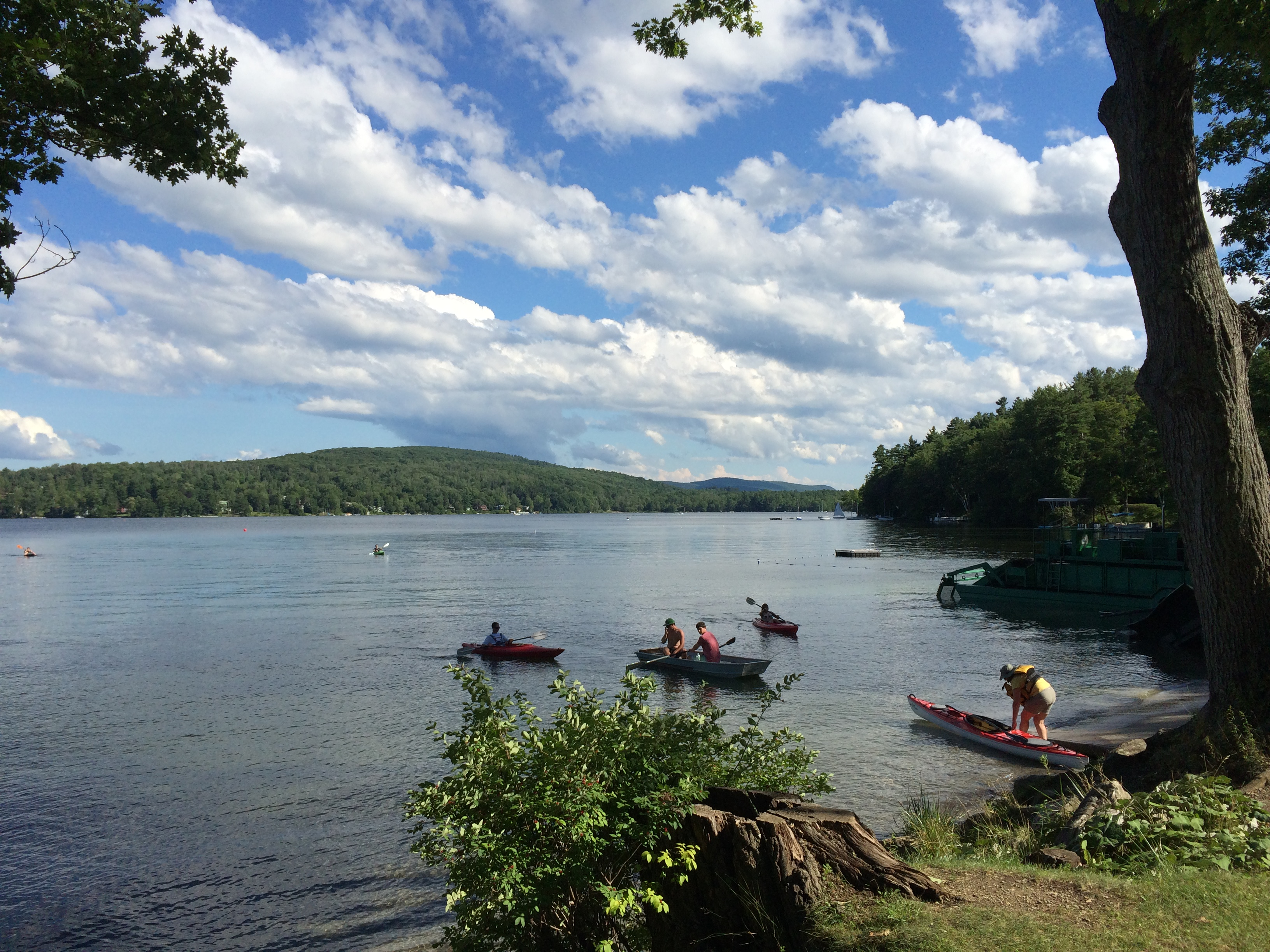 Taken from the public boat ramp at the northwest corner of Stockbridge Bowl in Stockbridge, Massachusetts, looking southeast across the lake to Rattlesnake Hill on the horizon.